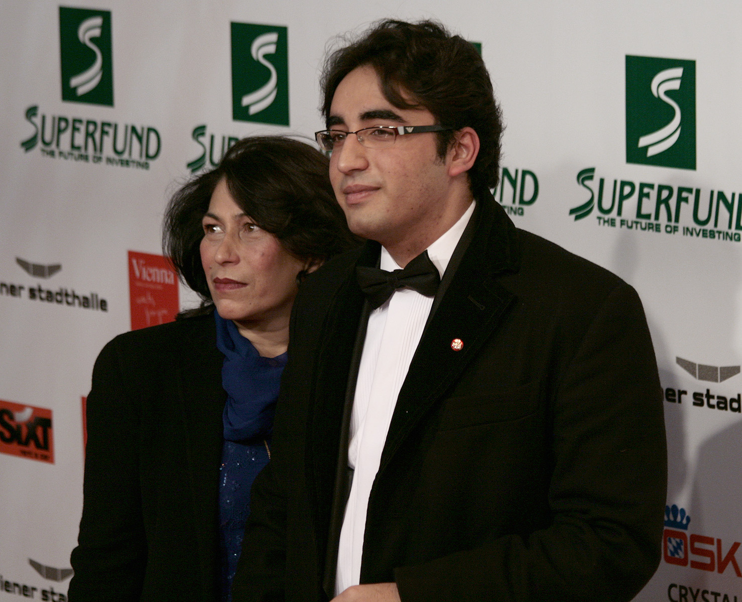 Sanam Bhutto and Bilawal Bhutto Zardari at the Women's World Award 2009 (Wiener Stadthalle, Vienna, Austria).